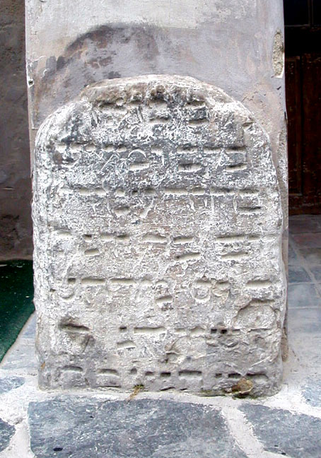 Jewish gravestone in Krems, Lower Austria, "Gattermannhaus, Drinkweldergasse 2, Corner Untere-Landstraße